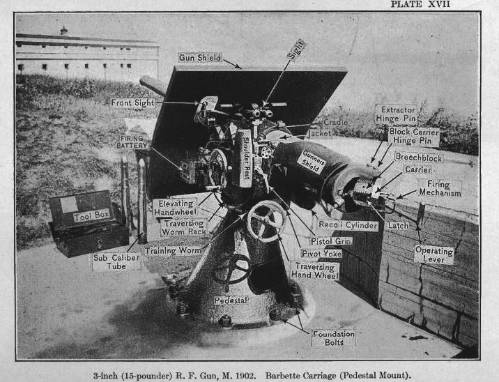 This image is of a 3-inch rapid fire seacoast gun, M1902. This is not a 3-inch M1902 field gun. The gun is mounted on a pedestal base. The hand wheels for aiming it in direction (traversing) and range (elevating) are visible. The breech is open. The firing battery was used to supply current to the small lamps that lit the aiming scales and the sight at night.